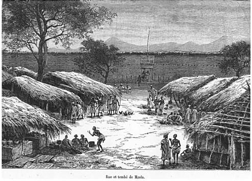 The main street and the fortress built by Captain Émile Storms at Lubanda-Mpala